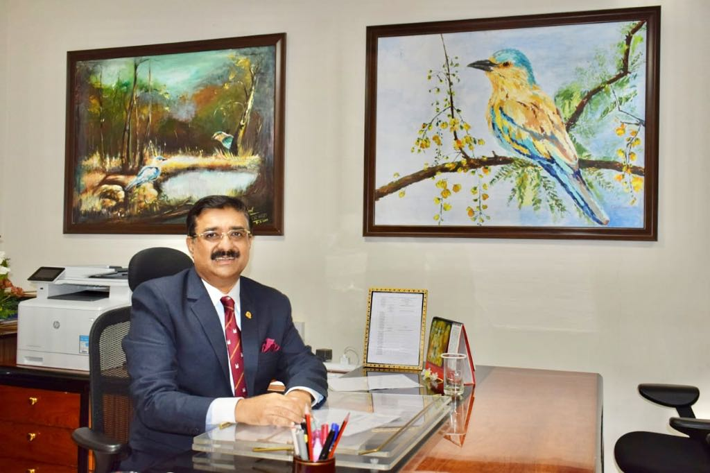 B.P Acharya at MCR HRDI Office